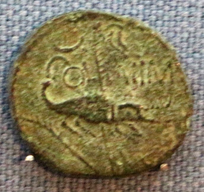 Ancient Roman coins in Palazzo Blu (Pisa)